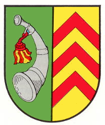 Coat of arms of Ruppertsweiler